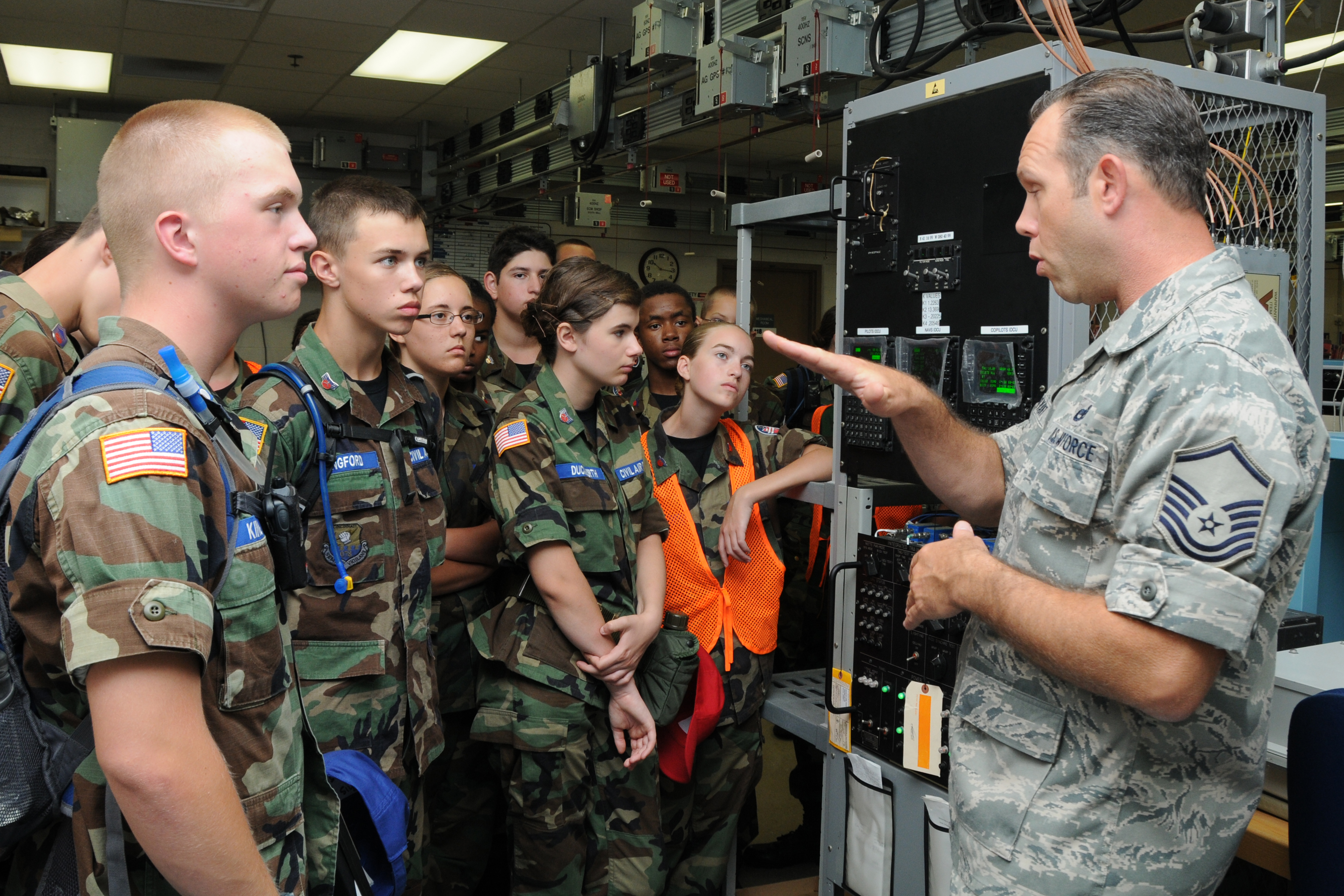 YOUNGSTOWN AIR RESERVE STATION, Ohio—Air Force Reserve Master Sgt. Dan Bryant, a communication and navigation systems craftsman with the 910th Maintenance Squadron, explains the components of avionics equipment to Civil Air Patrol cadets, July 31, here. The Civil Air Patrol toured base facilities including Propulsion, the Navy and Marine Corps Reserve center and the 910th aerial spray facilities. U.S. Air Force photo by SrA Rachel Kocin.